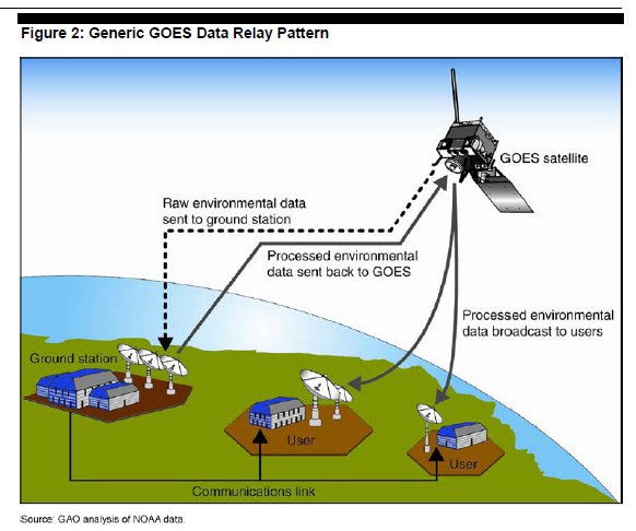 Generic GOES satellite data relay pattern.